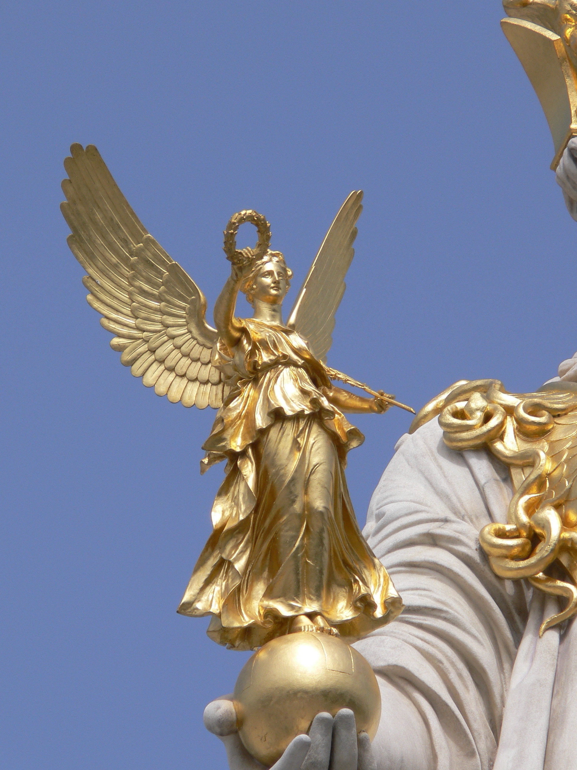 Vienna. Statue of Athena Parthenos in front of Parliament: Statue of Nike in the hand of Athena.